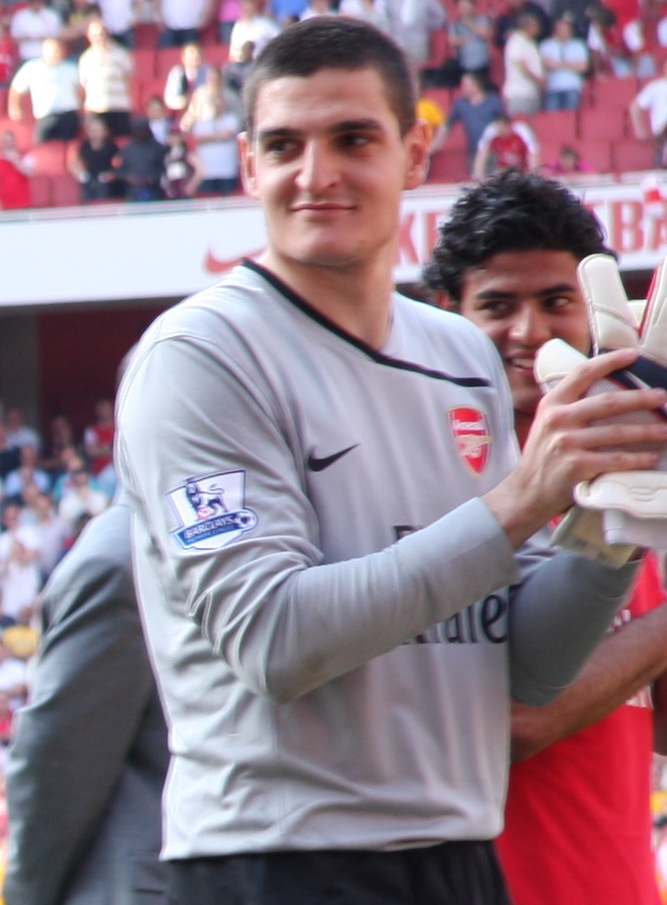 This file has been extracted from another file: Arsenal end of 2008-09 season walkabout.jpg